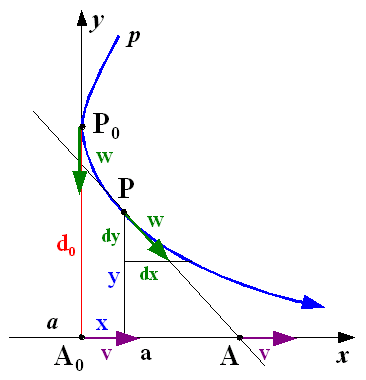 Curve of pursuit, derivation sketch lettered, colour